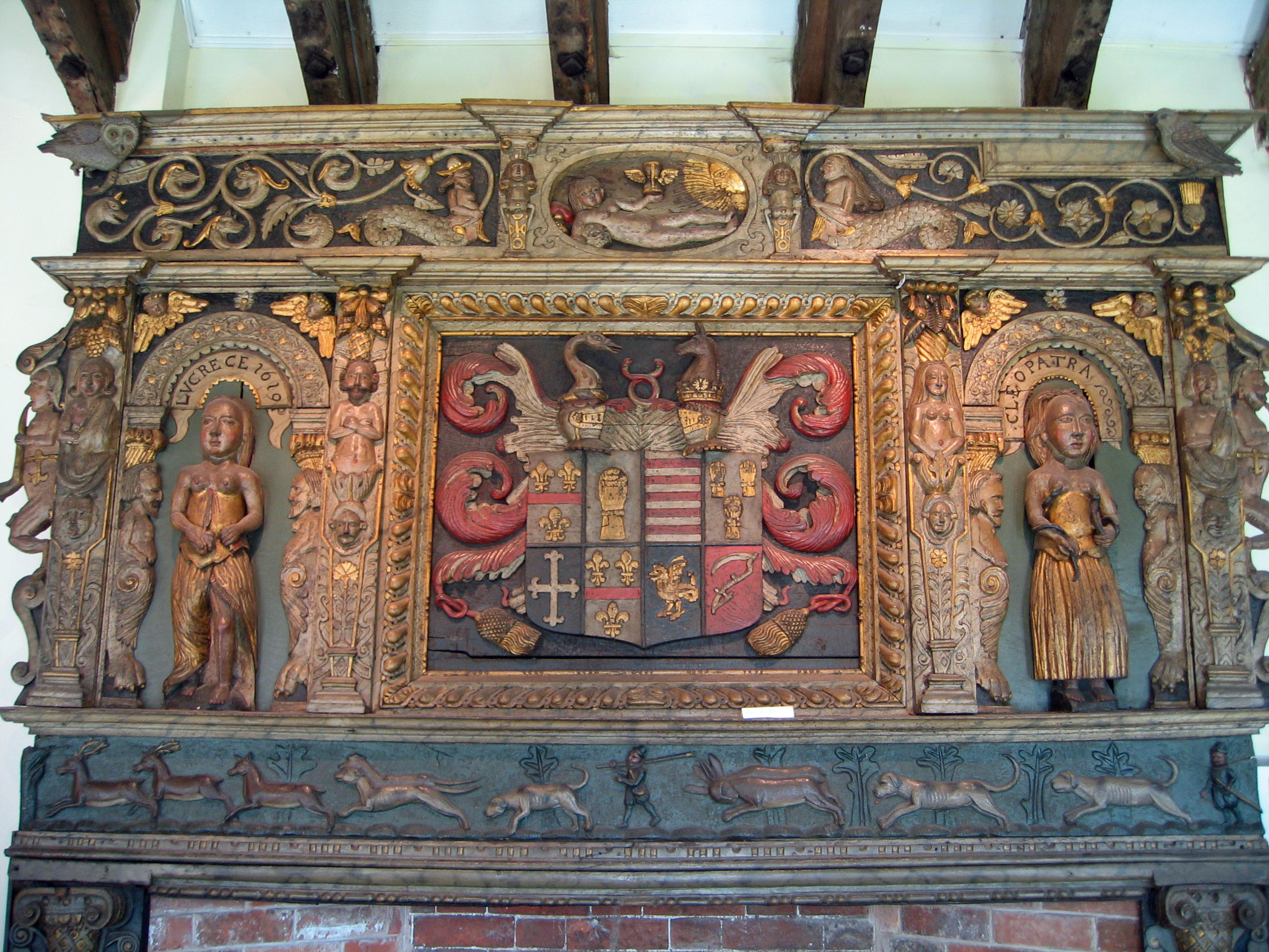 Chimney piece removed from Tabley Old Hall, Cheshire, now in the Old Hall Room at Tabley House. Built to memorialise the 1611 marriage of Peter Leycester (1588–1647) of Tabley to Elizabeth Mainwaring, a daughter of Sir Randle Mainwaring of Over Peover, Cheshire. The arms show Leycester (Azure, a fess gules between three fleurs-de-lys or) of four quarters, impaling Mainwaring (Barry of twelve argent and gules) of four quarters. The arms of Leycester are a known contravention of the heraldic "rule of tinctures".( Encyclopaedia Britannica, 1902, 9th and 10th editions, "Heraldry"[1])[2]